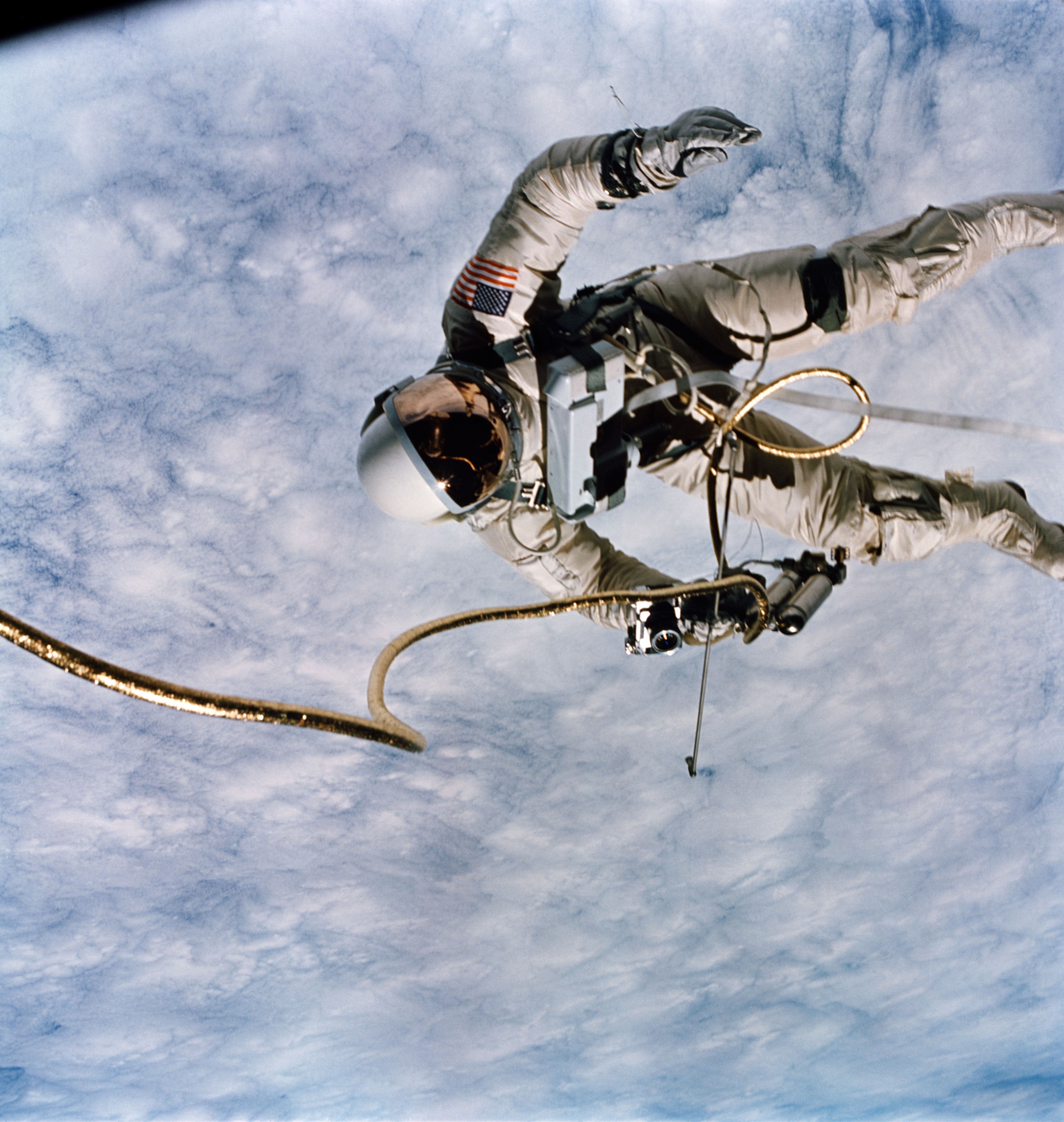 This photograph was taken early in the EVA over a cloud-covered Pacific Ocean. Astronaut Edward H. White II, pilot for the Gemini-Titan 4 space flight, floats in zero gravity of space. The extravehicular activity was performed during the third revolution of the Gemini 4 spacecraft. White is attached to the spacecraft by a 25-ft. umbilical line and a 23-ft. tether line, both wrapped in gold tape to form one cord. In his right hand White carries a Hand-Held Self-Maneuvering Unit (HHSMU). The visor of his helmet is gold plated to protect him from the unfiltered rays of the sun.